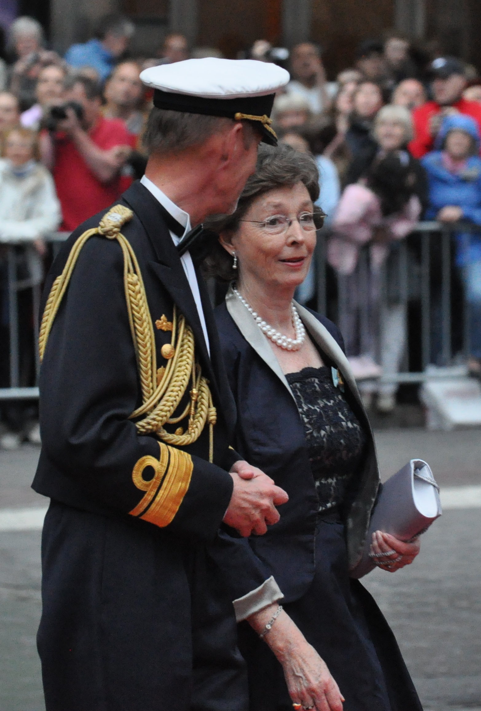 Rear admiral Jörgen Ericsson at the Wedding of Victoria, Crown Princess of Sweden, and Daniel Westling; Arrival of members for the Gouvernment and Swedish and foreign guests of hounour to the Riksdag's Gala Performance at Konserthuset